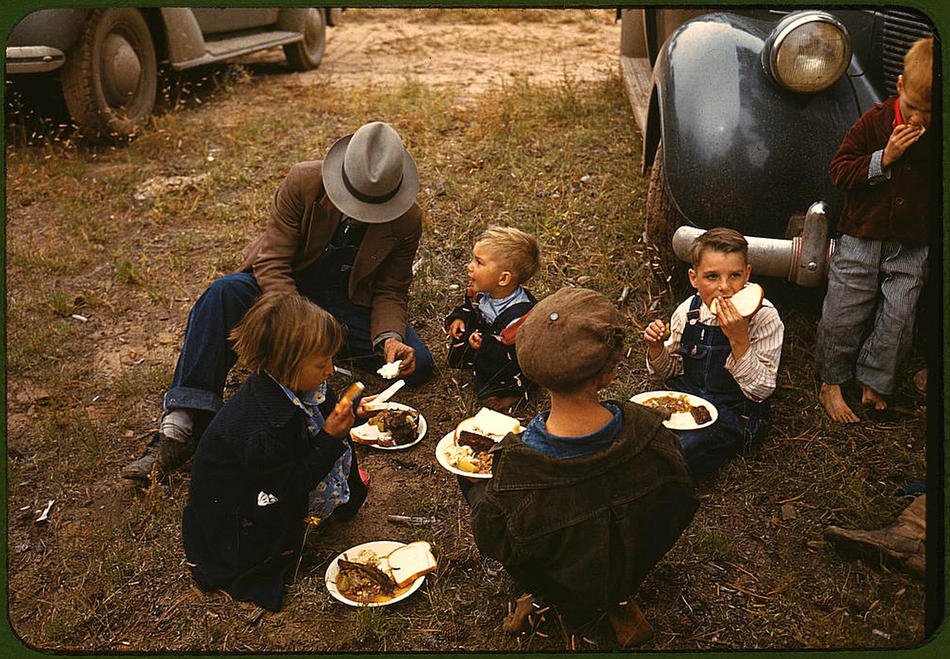 Homesteader and his children eating barbeque at the New Mexico Fair. Pie Town, New Mexico, October 1940.